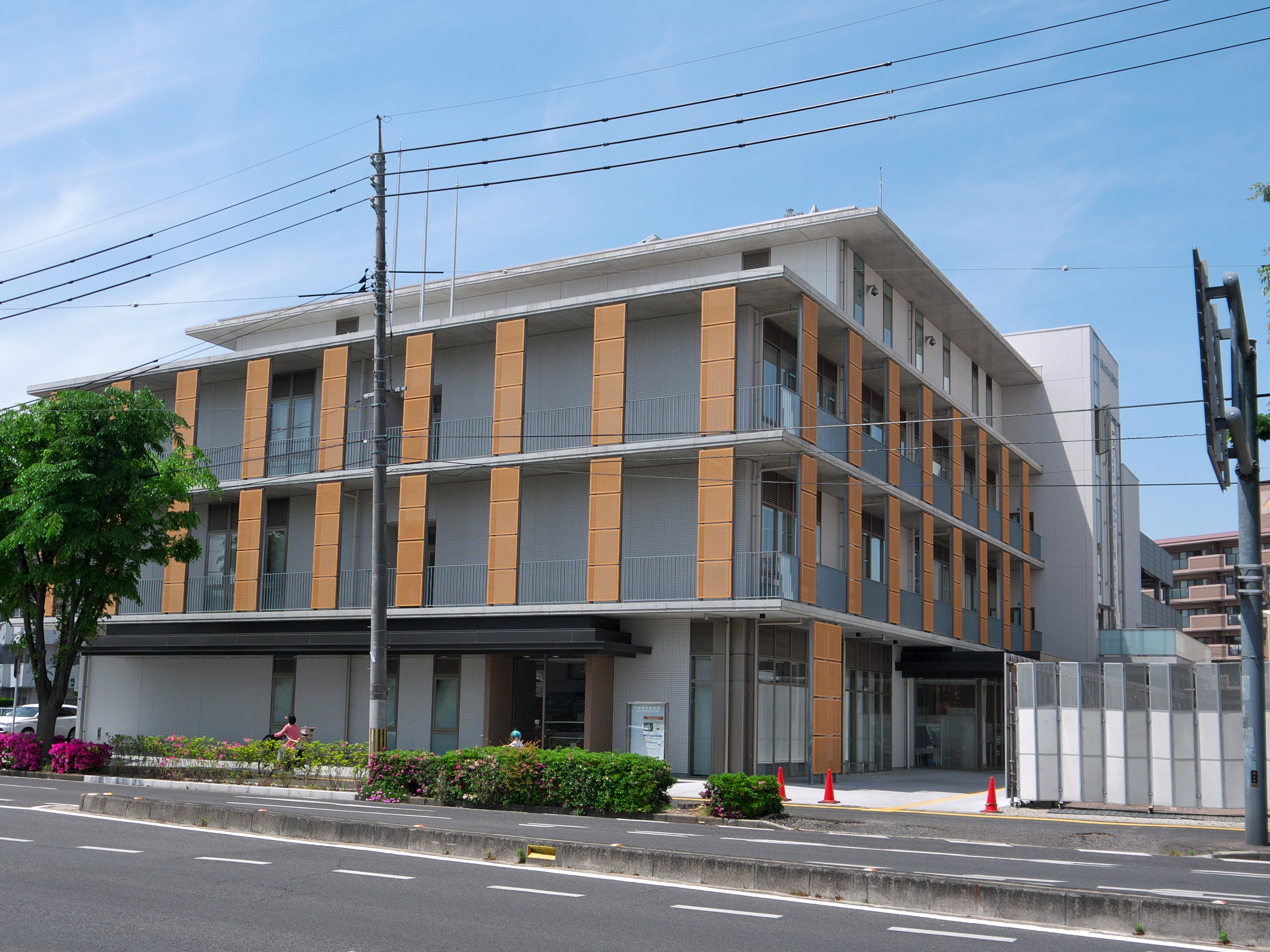 Okayama city Naka ward office (since December 26, 2016)